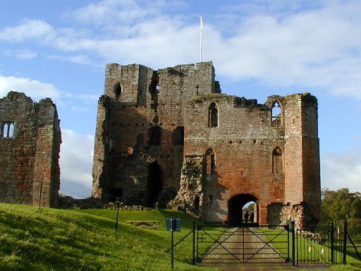 Brougham Castle